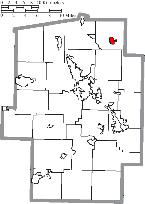 Map of the municipal and township boundaries of Tuscarawas County, Ohio, United States, as of the 2000 census, with the location of the village of Mineral City highlighted. Township borders are shown only in unincorporated areas in order to differentiate incorporated and unincorporated areas more clearly.